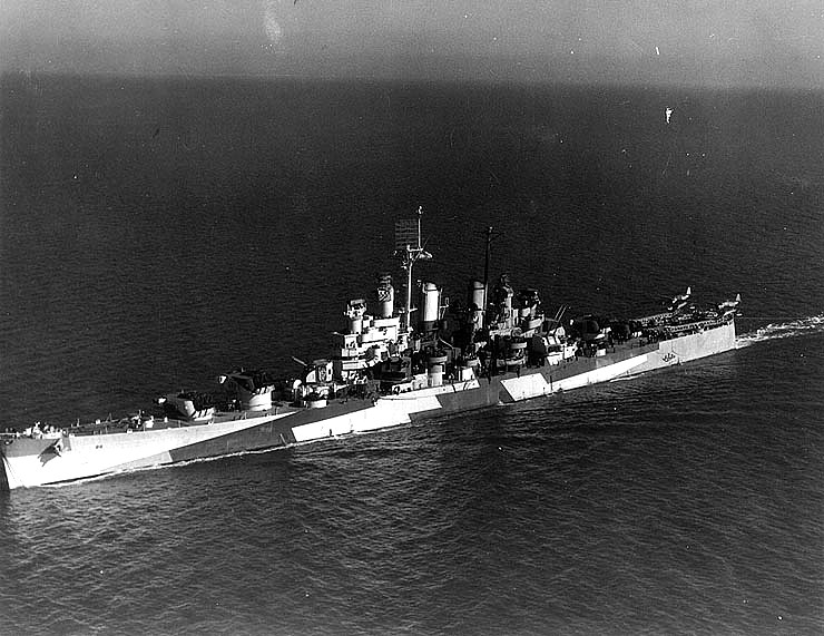 The U.S. Navy light cruiser USS Vicksburg (CL-86) underway off the U.S. East Coast, 17 October 1944. The ship is painted in Camouflage Measure 33, Design 6d.